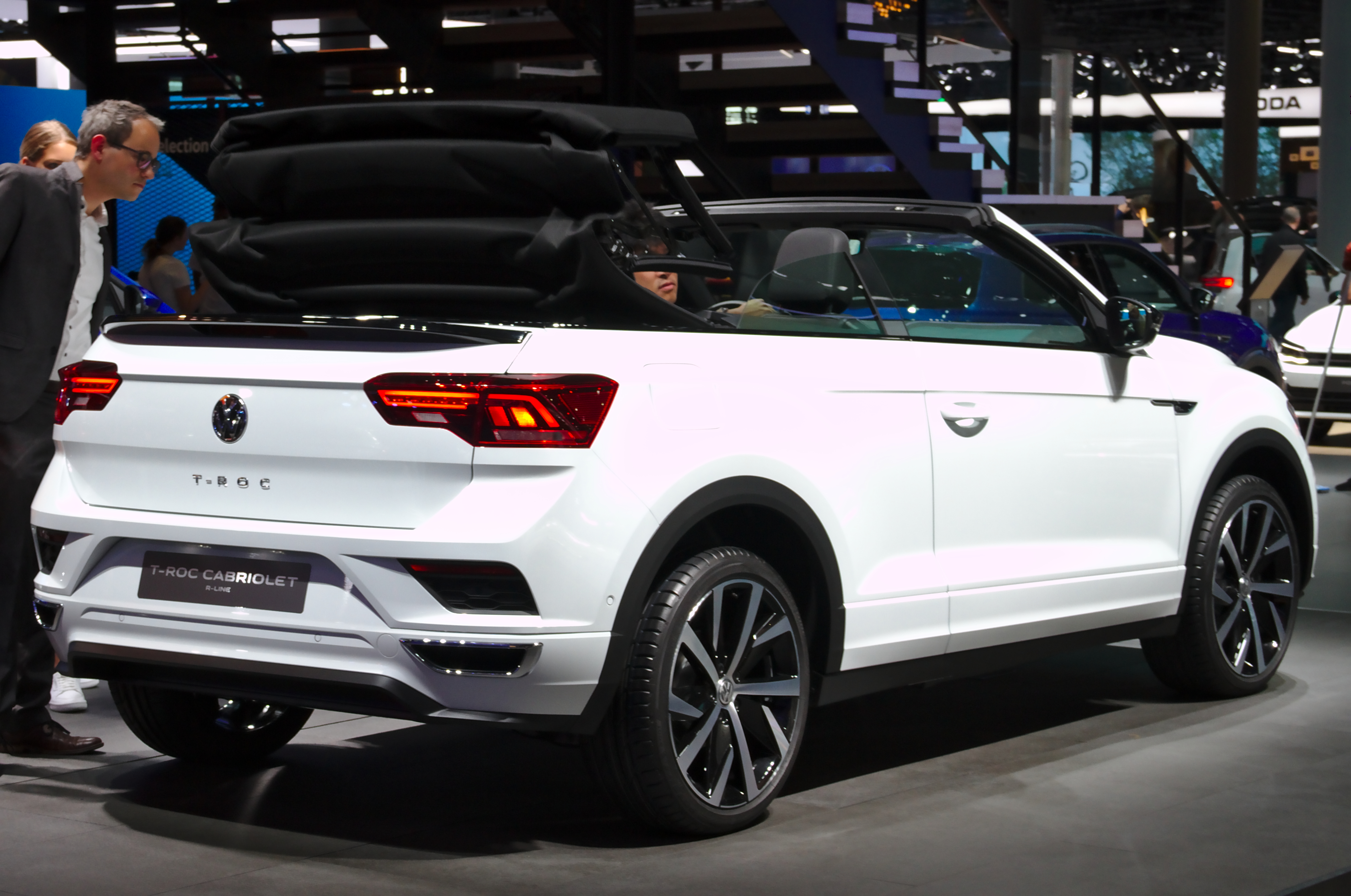 Volkswagen_T-Roc_Cabriolet at IAA 2019